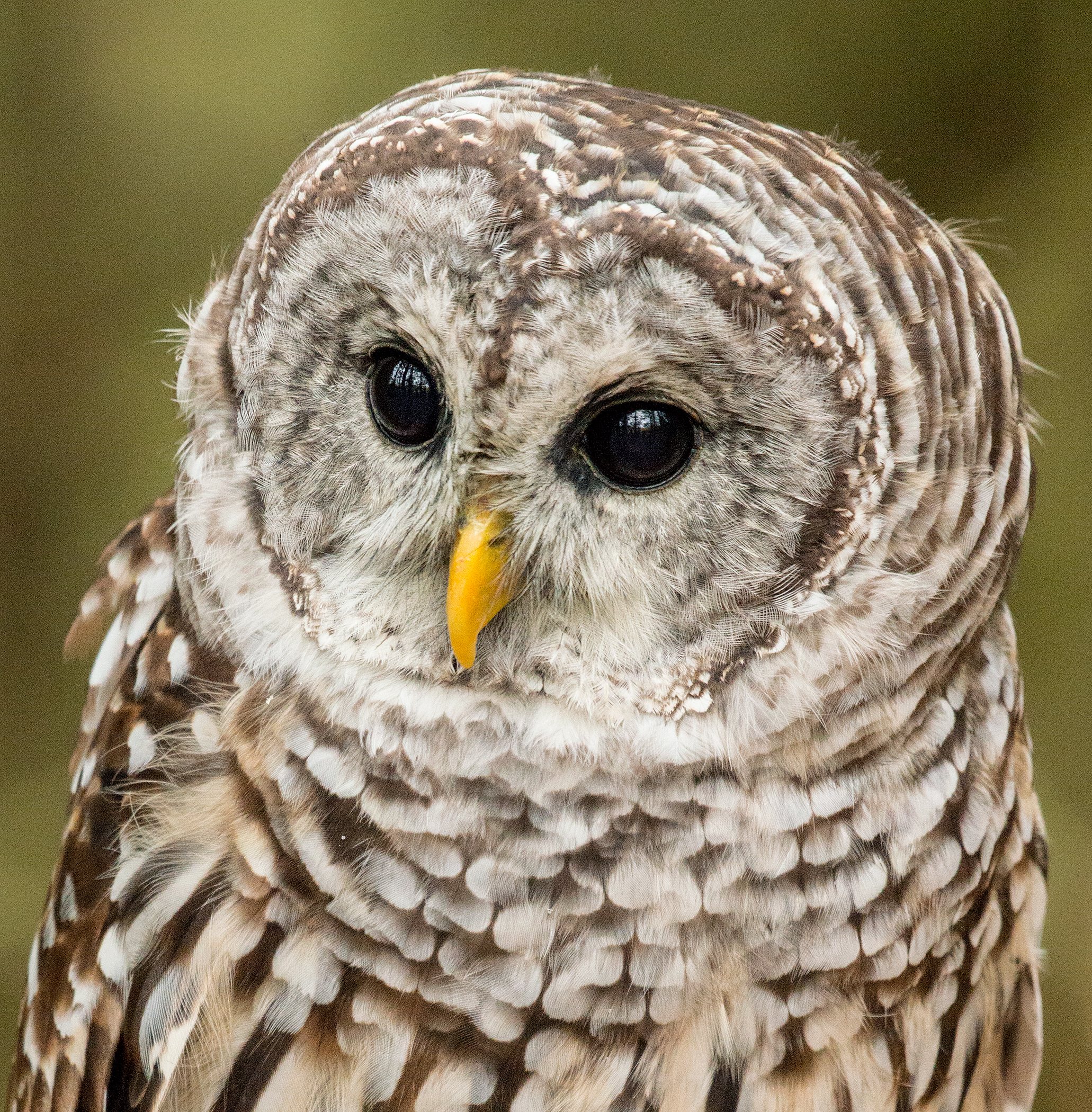 Close-up, Ontario, Canada